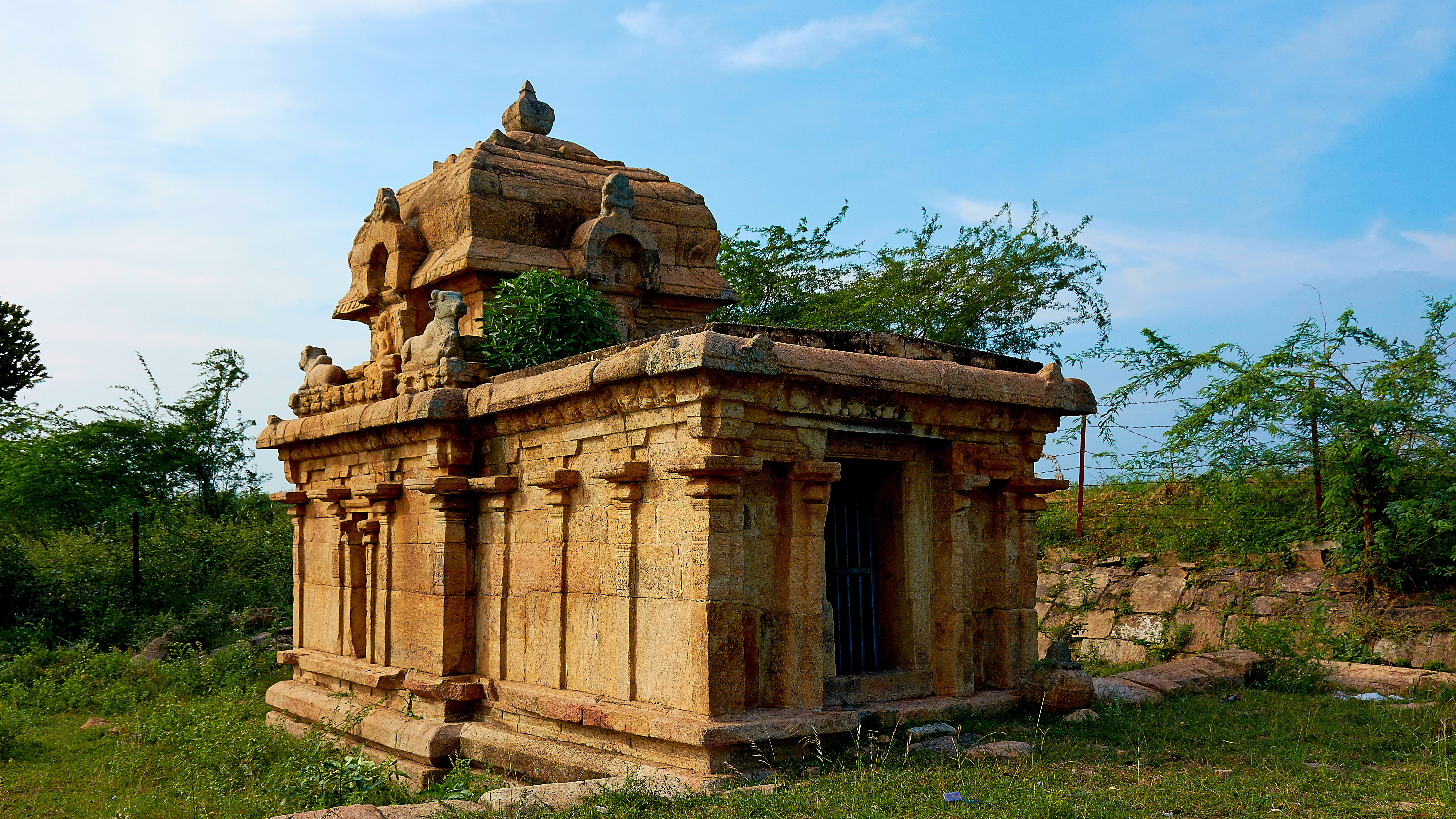 Front view and entrance of siva temple at panangudi,Pudukkottai district